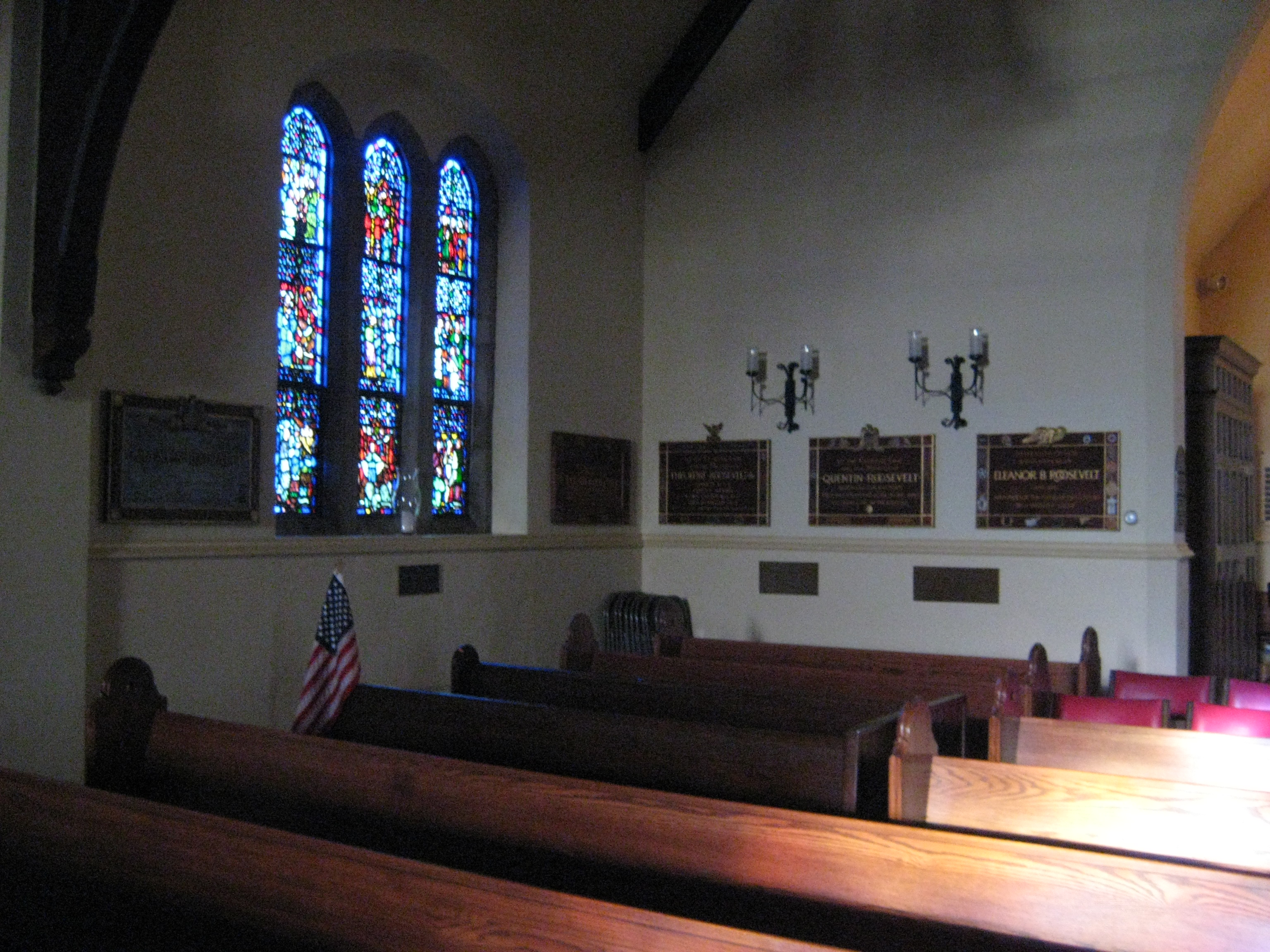 Christ Church, Oyster Bay, New York - interior with Roosevelt pew